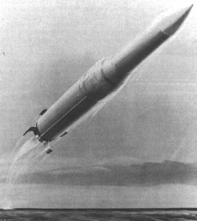 Artist conception of the Boeing RUM/UUM-125 Sea Lance stand-off anti-submarine missile.